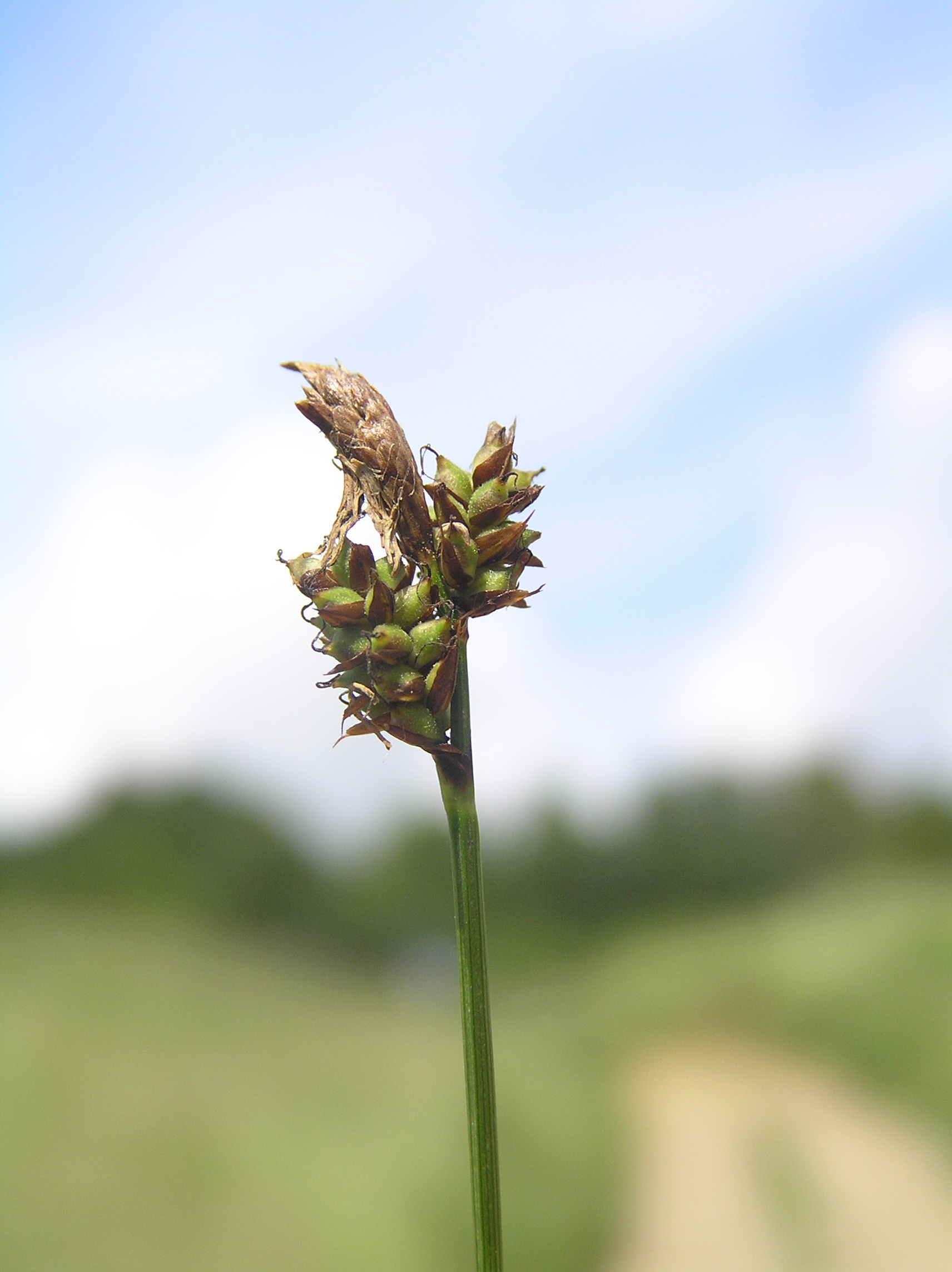 Carex montana, Štítní nad Vláří, Czech Republic